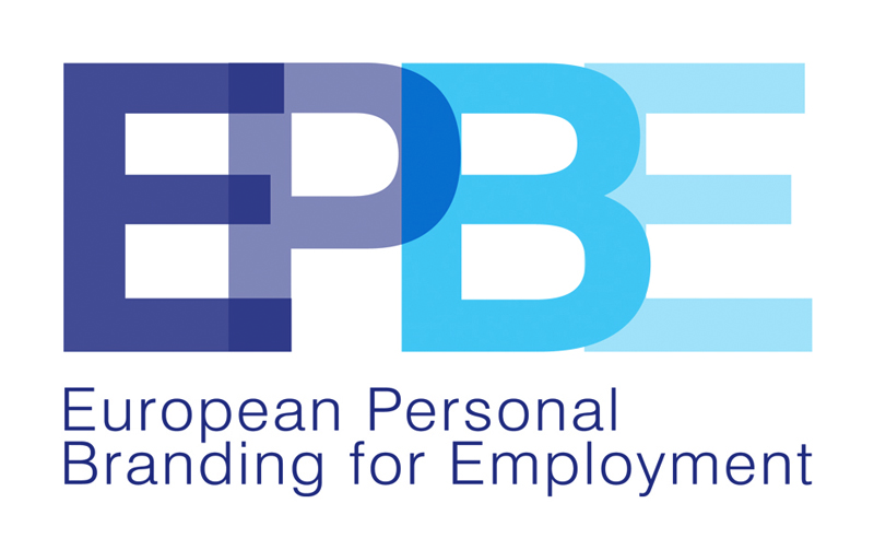 Logo EPBE